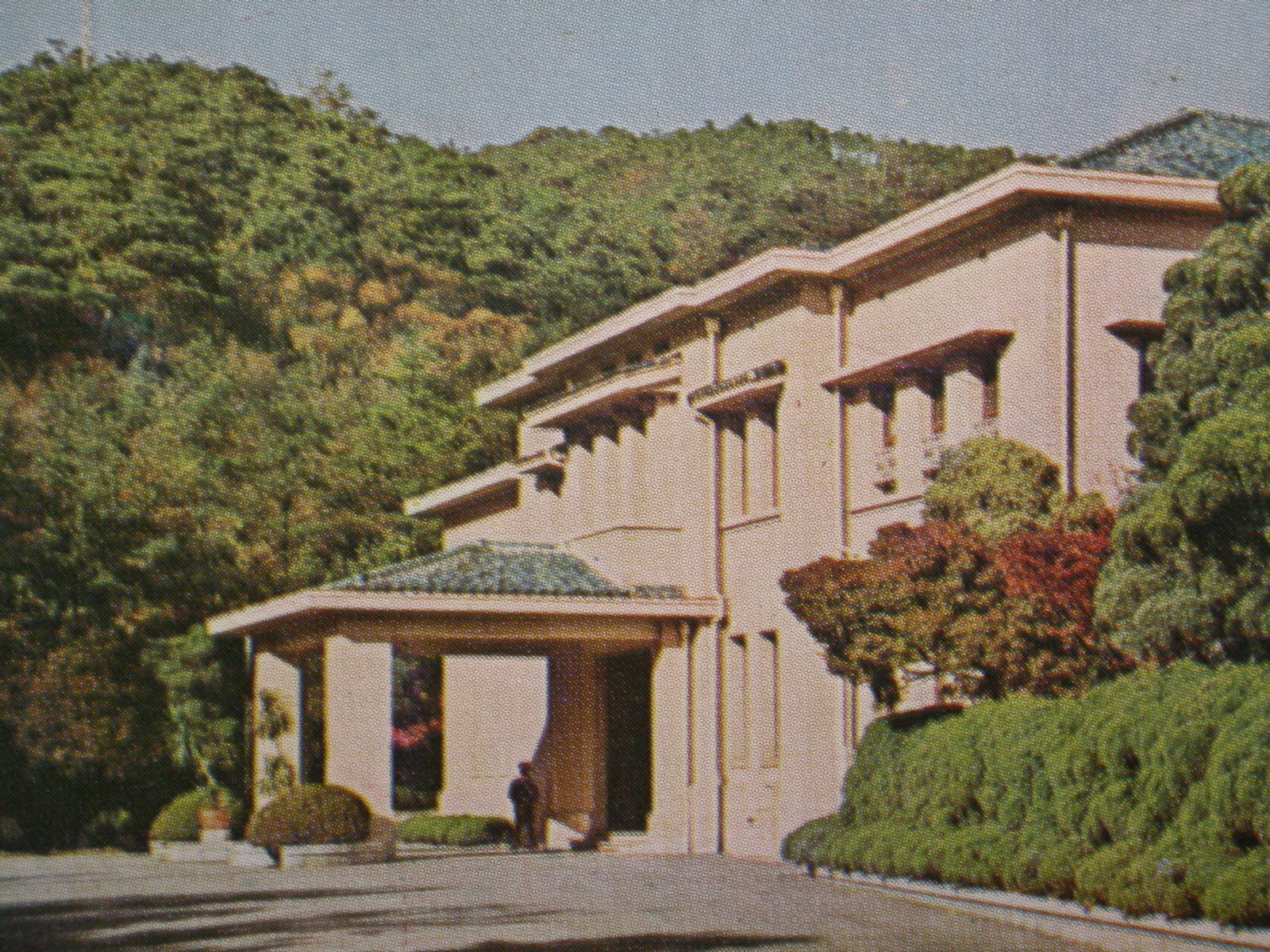 Gyeongmudae Of Korea